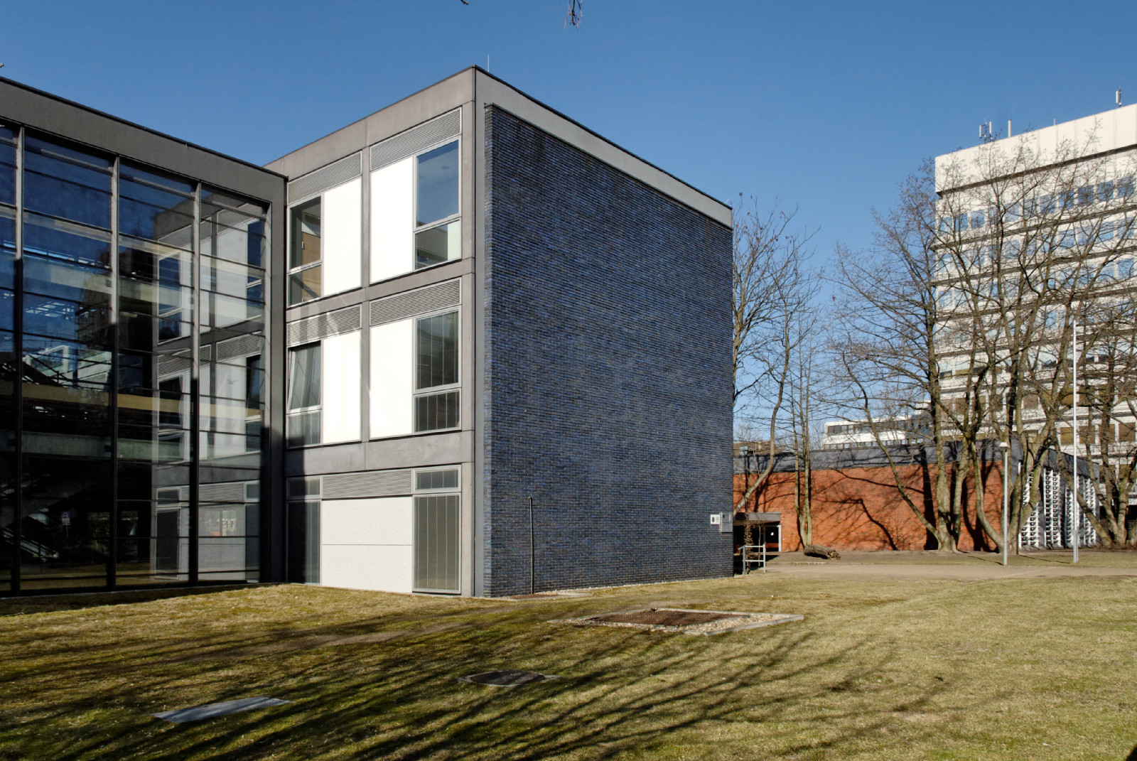 Rolandschule in Düsseldorf-Golzheim, Germany